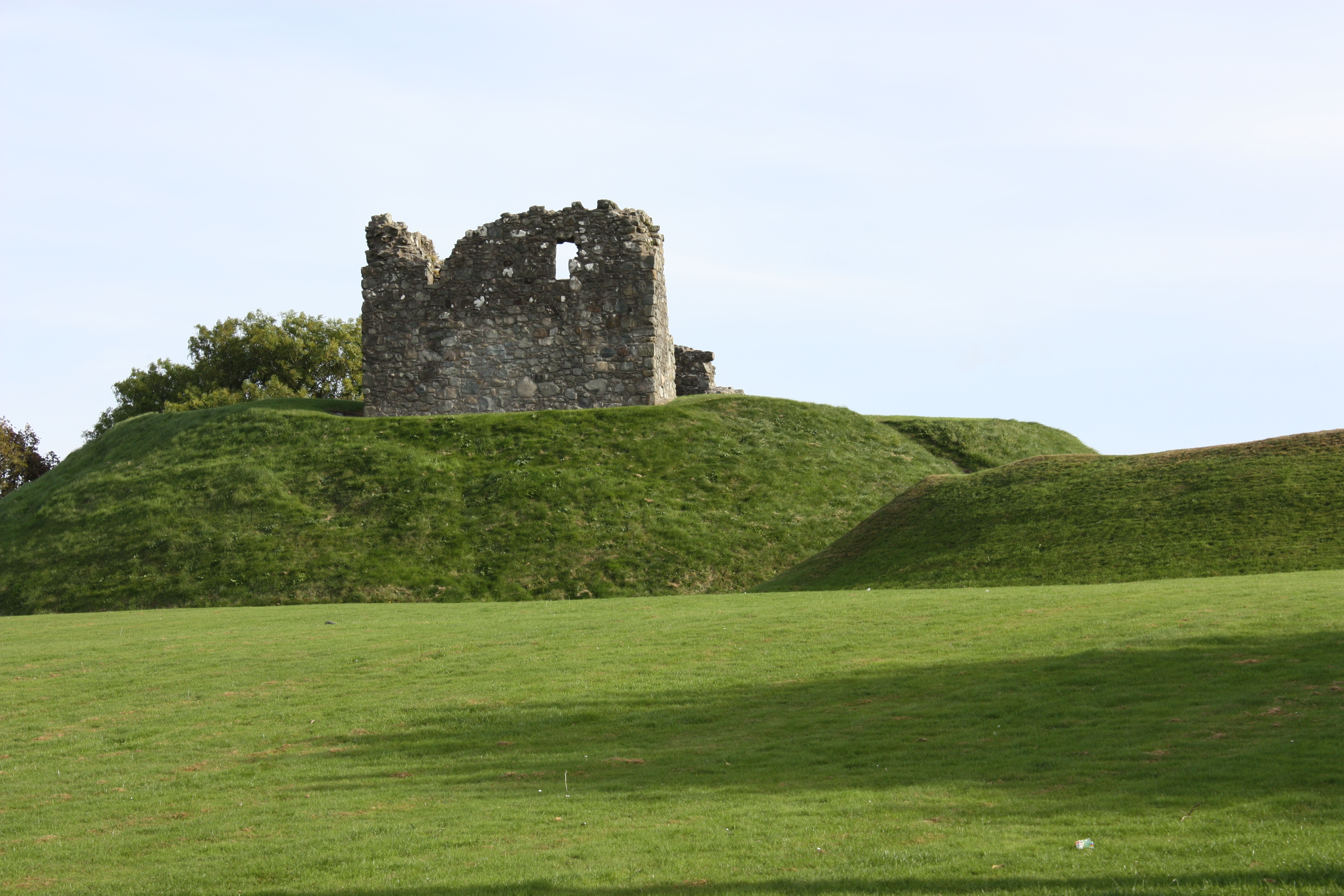 Clough Castle, Main Street, Clough, County Down, Northern Ireland, October 2009